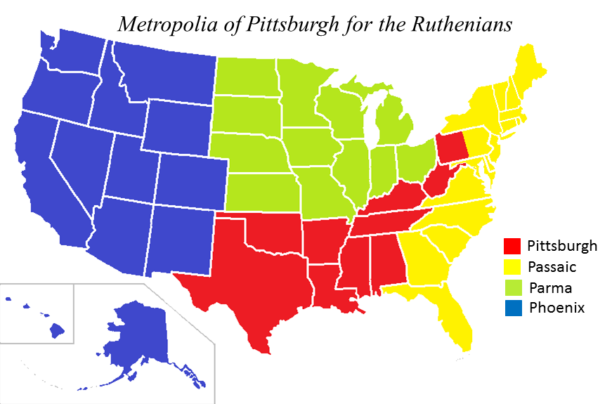 The map of the Metropolia of Pittsburgh for the Ruthenian (Byzantine) Catholic Church, which encompasses the United States.